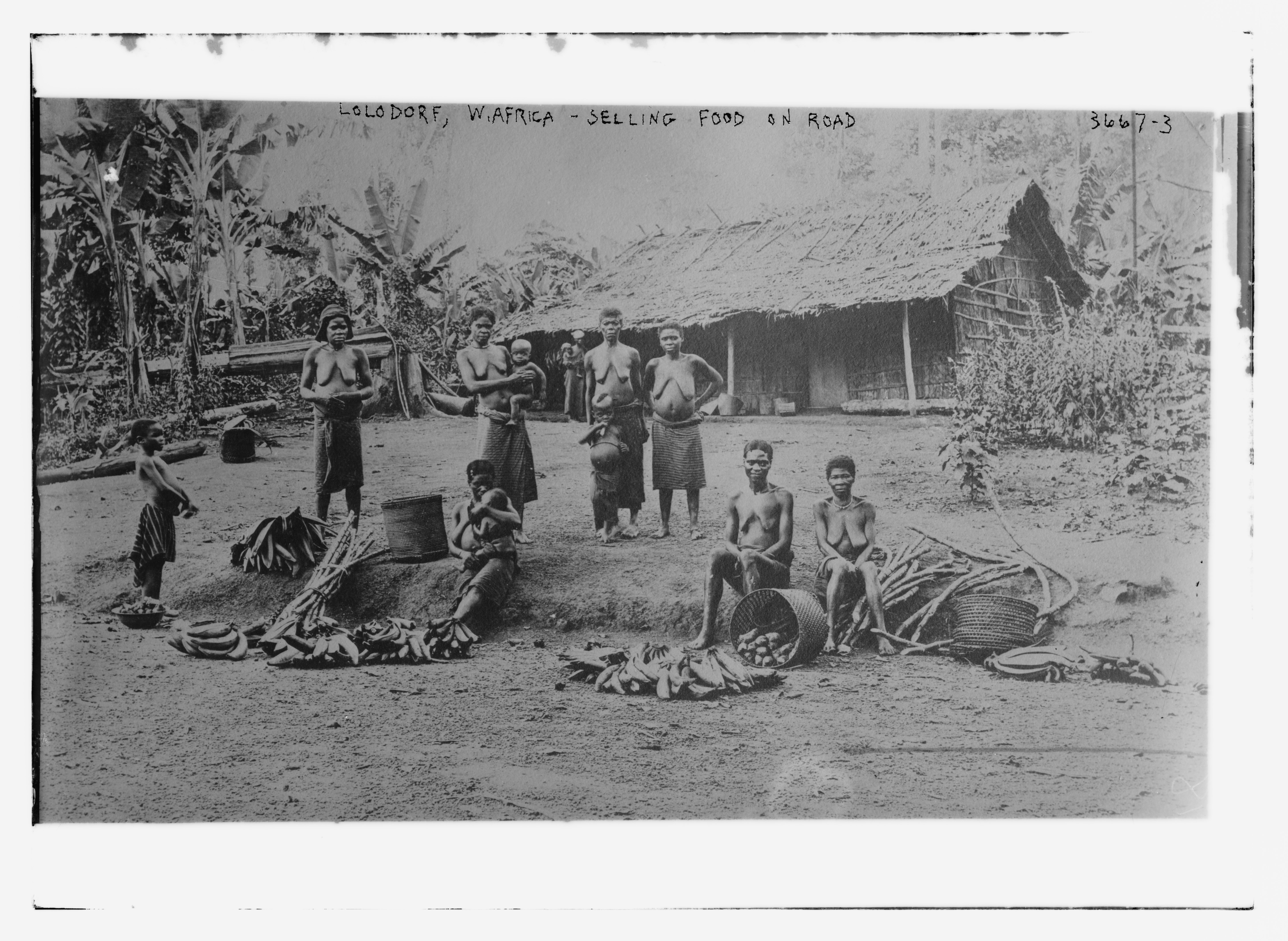 Title: Lolodorf, W. Africa -- selling food on road Abstract/medium: 1 negative : glass ; 5 x 7 in. or smaller.